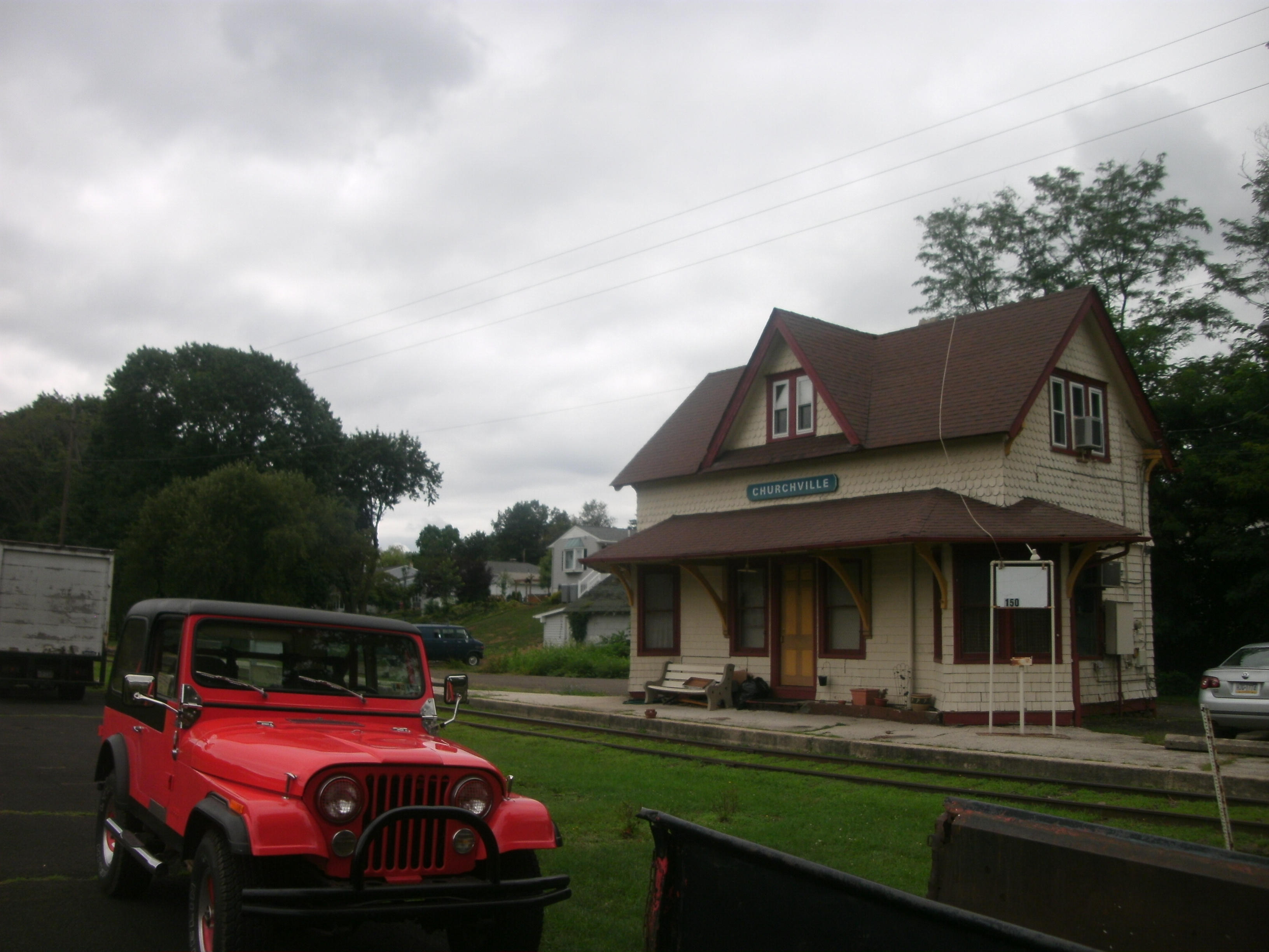 The former station depot at the Churchville station for SEPTA's former R8 to Newtown, as seen in July 2012.